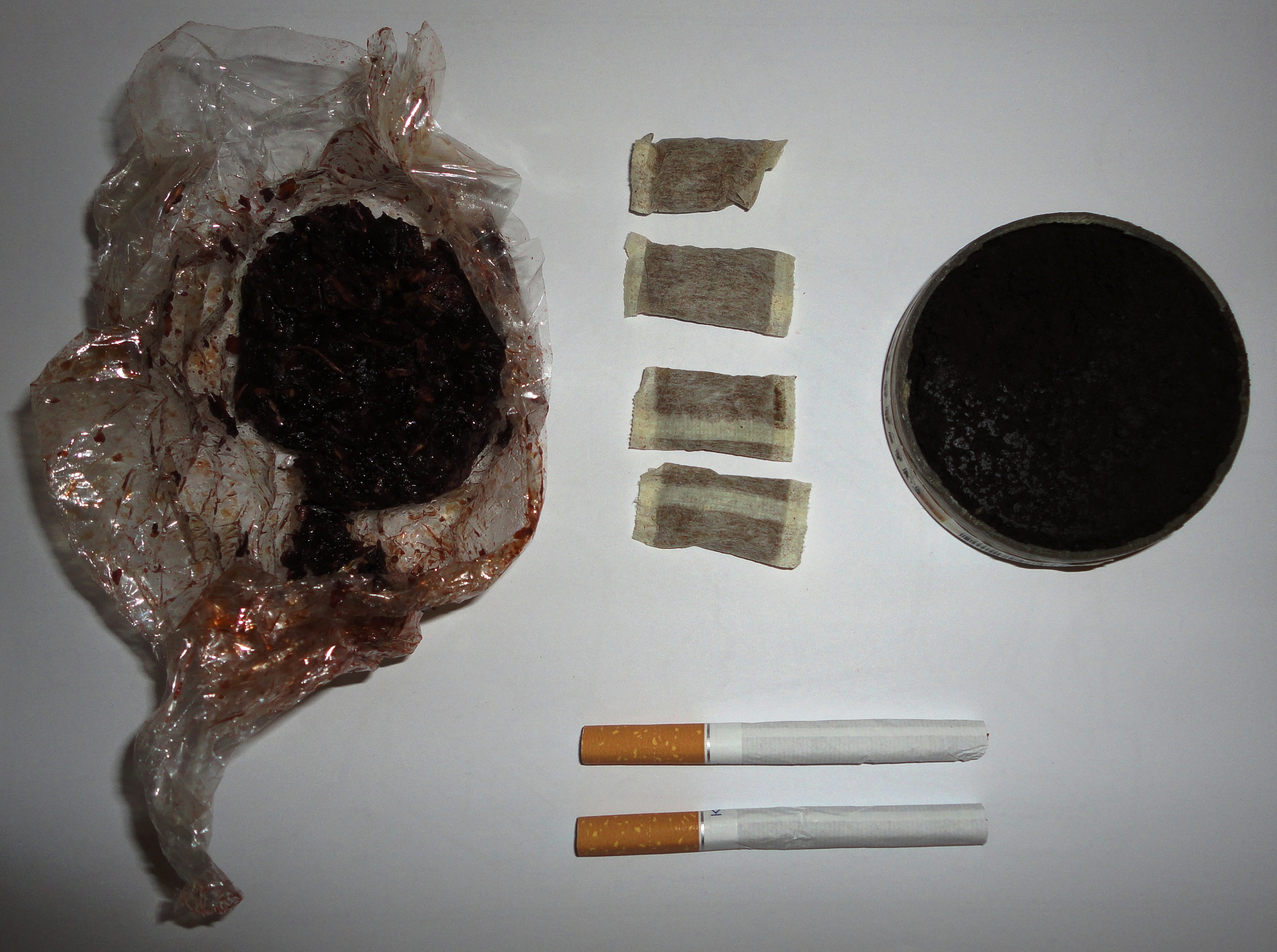 Nicotine products.